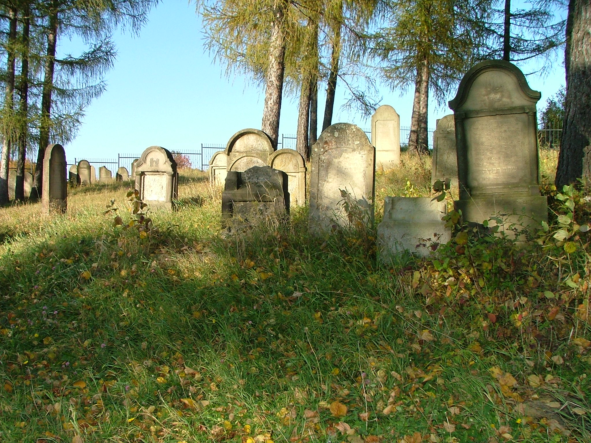 Jewish cemetery in Bobowa